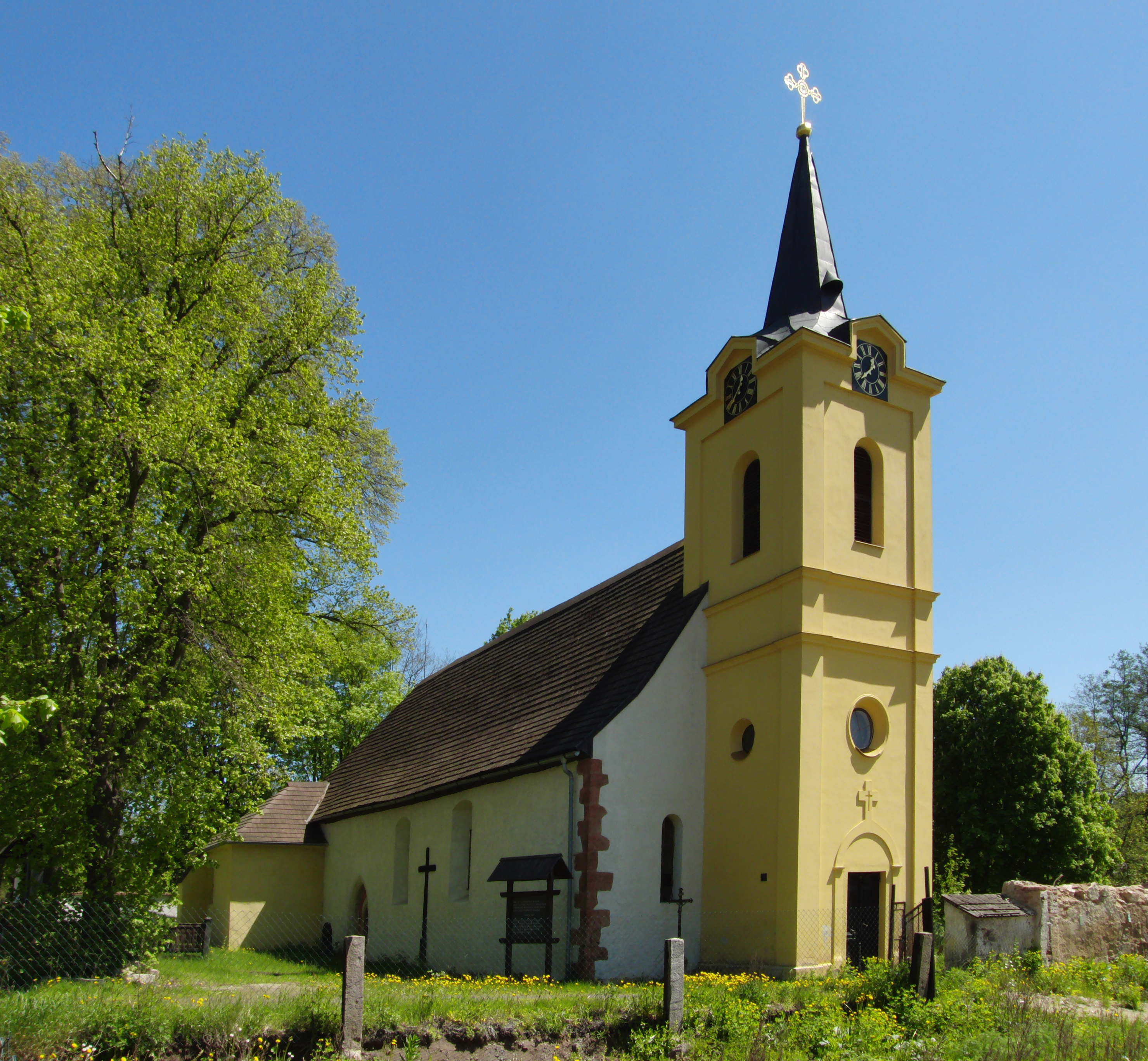 Saint Maria Magdalena church in Bor (Karlovy Vary)